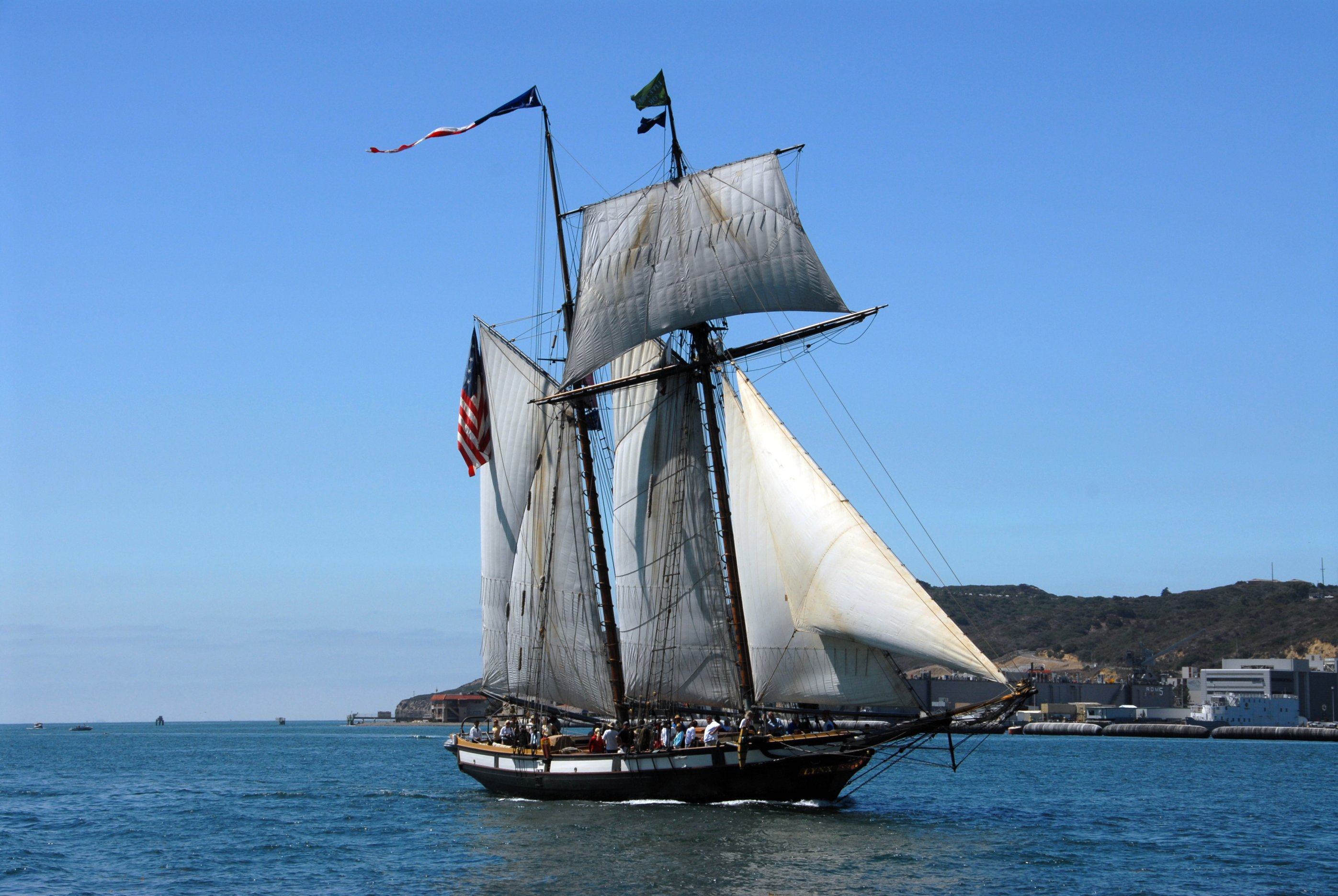 Topsail schooner „Lynx“, photo taken at the Festival of Sail 2008, San Diego CA.